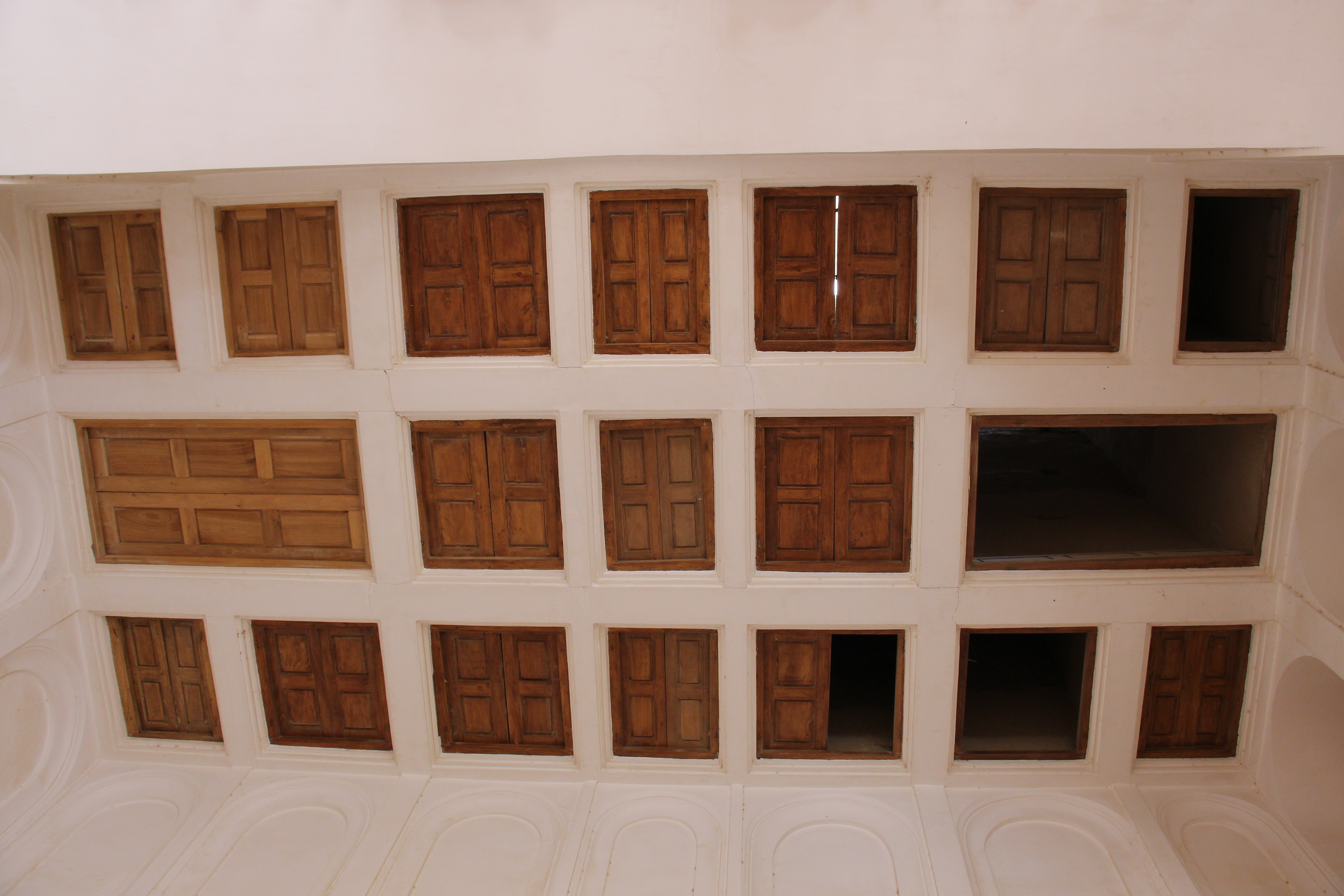 a bottom view of windcatcher